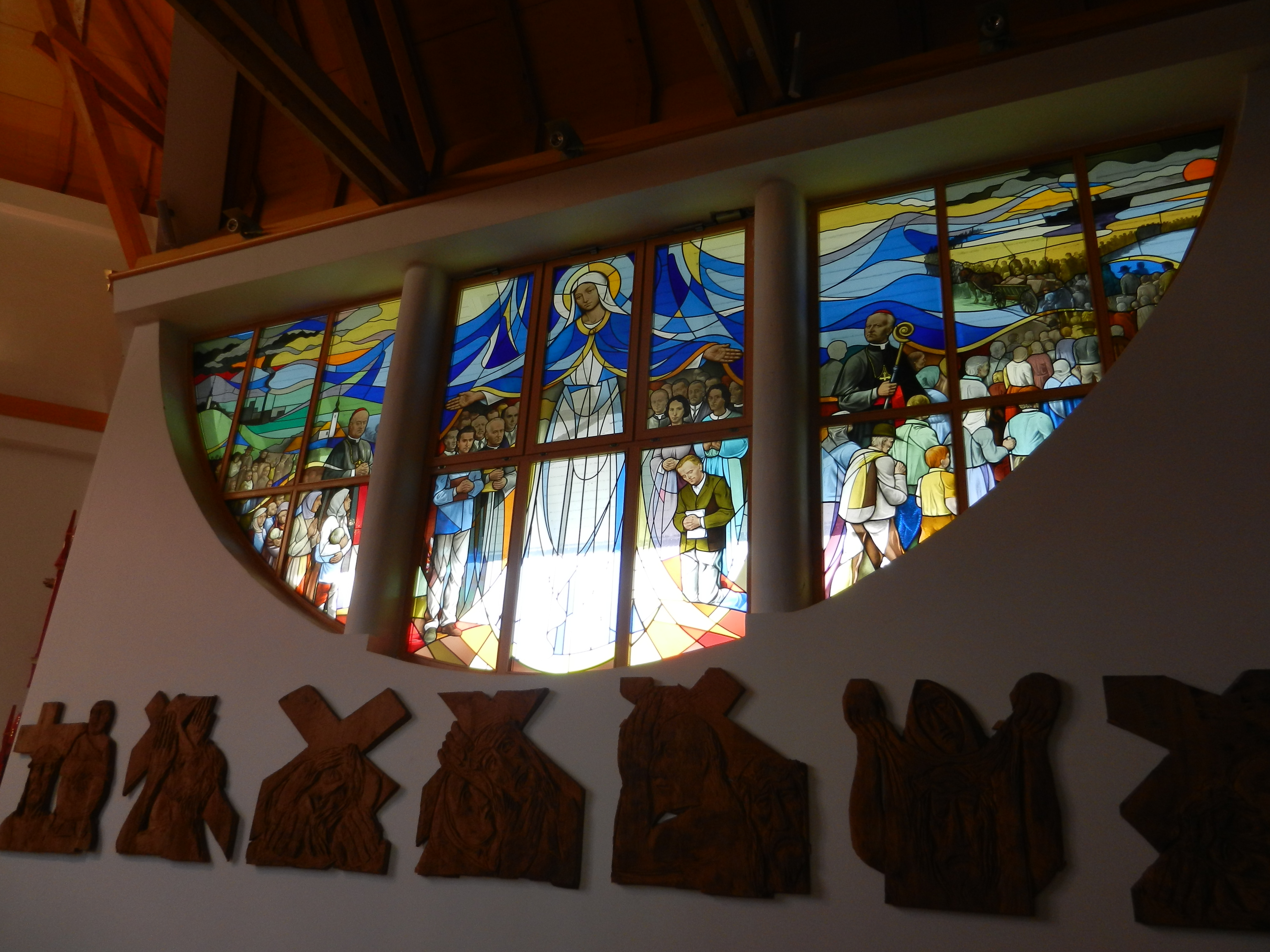 Stained glass in the church Sv. Janeza Krstnika v Kočevski Reki